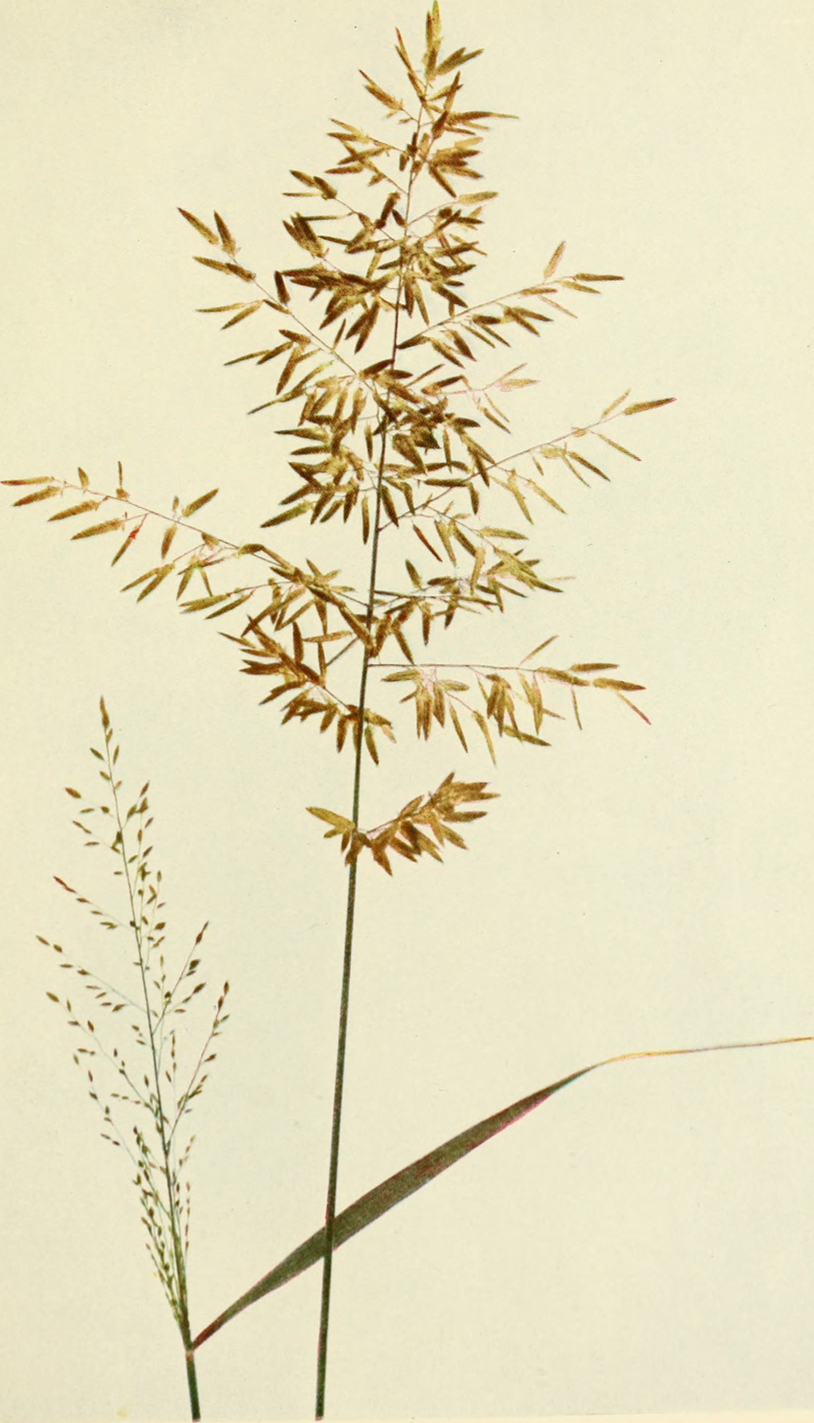 Title: The book of grasses : an illustrated guide to the common grasses, and the most common of the rushes and sedges Year: 1912 (1910s) Authors: Francis, Mary Evans, 1876-1941 Subjects: Cyperaceae Grasses -- United States Juncaceae Publisher: Garden City, N.Y. : Doubleday, Page Text Appearing Before Image: ,SA\l)-(,k.\SS iTrip!aus purpurea) Text Appearing After Image: SXAKE-GRASS (Eragrostis mcgaslachya). Natural size